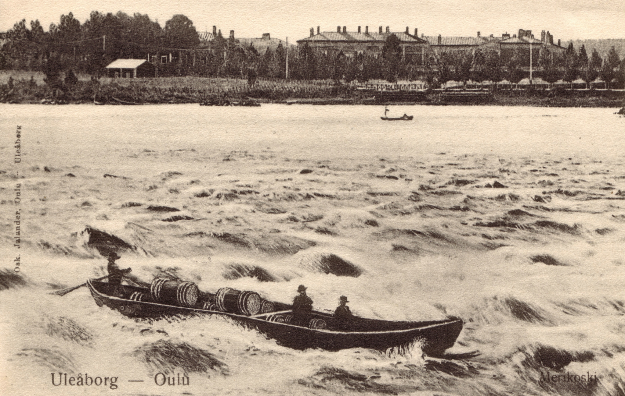 A postcard of a Tar-boat (Tervavene in Finnish) in Merikoski rapids in Oulu, Finland.